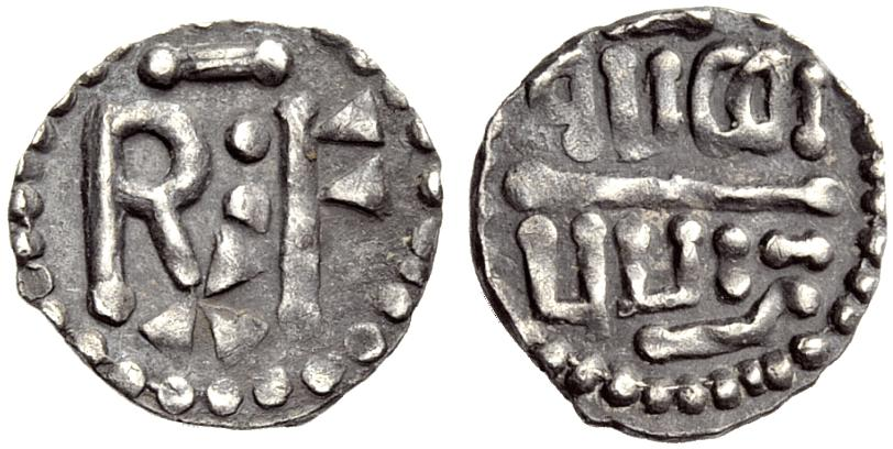 Denier of Pepin the short (reigned 752-768). Minted at Quentovic between c. 754-768. Obverse: the legend "Rx:F" with a line above. Reverse: the legend QVCCI VVIC? on two lines, with a line separating. On both: a rim of beads.